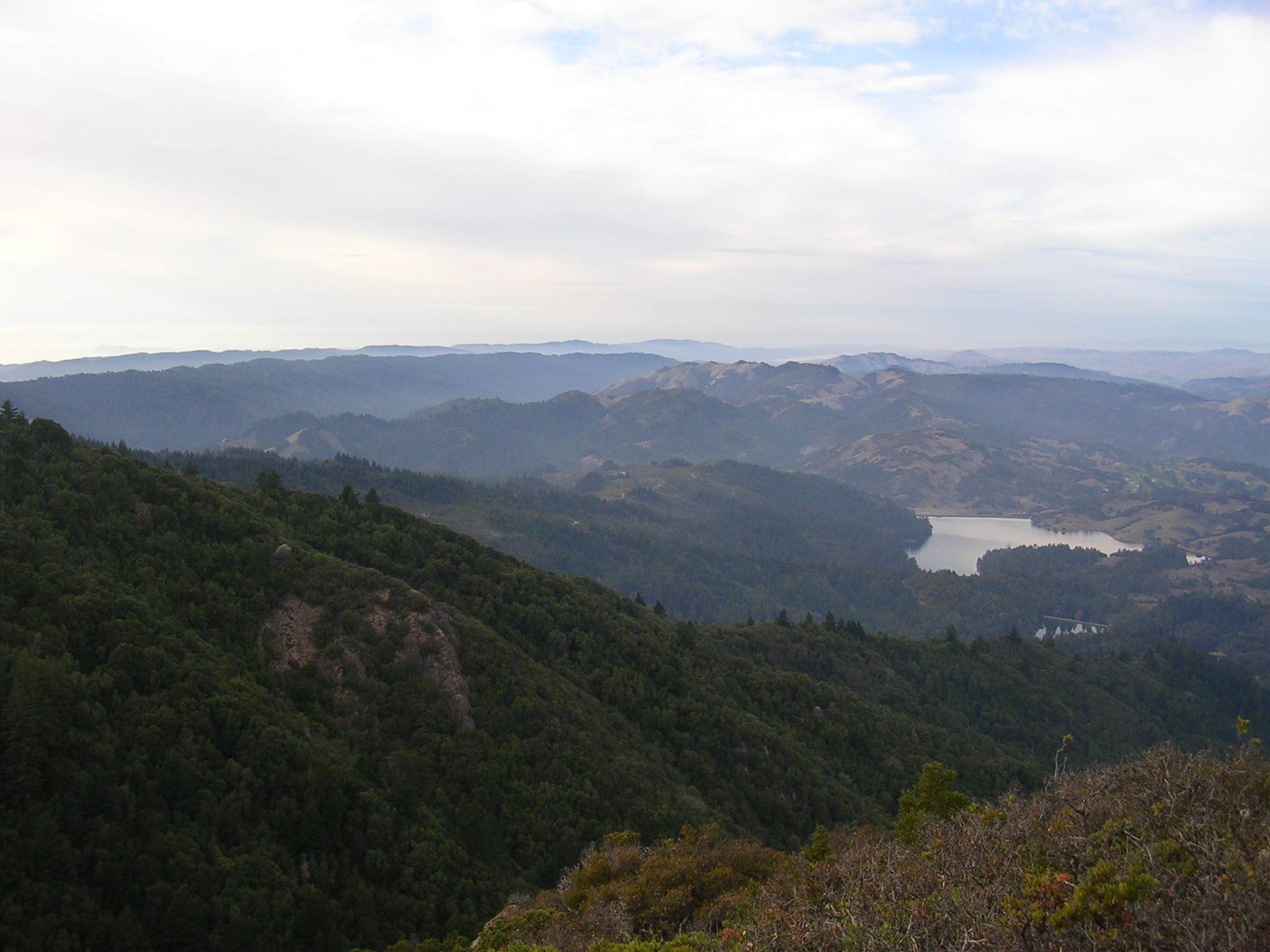 View of the northwestern Marin Hills. Bon Tempe Lake and Lake Lagunitas could be seen on the right.